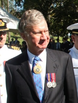 BRISBANE, Australia (May 7, 2011) Members of the U.S. 7th Fleet Band are inspected by acting Governor and Chief Justice of Queensland the Honorable Paul de Jersey, AC, in a Coral Sea Memorial Service at Newstead Park. The band is in Australia to commemorate the 69th anniversary of the Battle of the Coral Sea and to share music with the community in the wake of the recent floods. (U.S. Navy photo by Musician 3rd Class Amanda Ginn/Released)